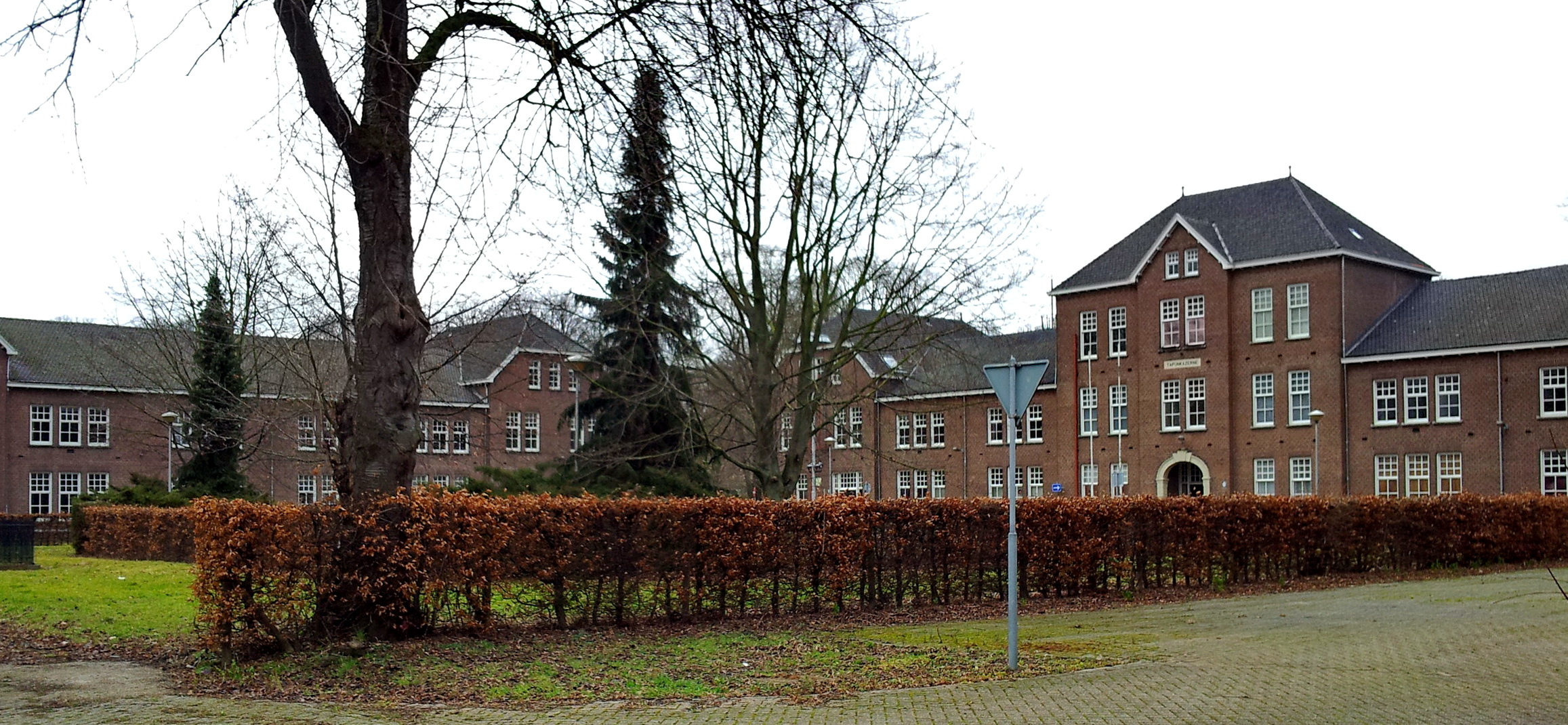 Maastricht, the Netherlands. View of the former Tapijnkazerne military barracks.